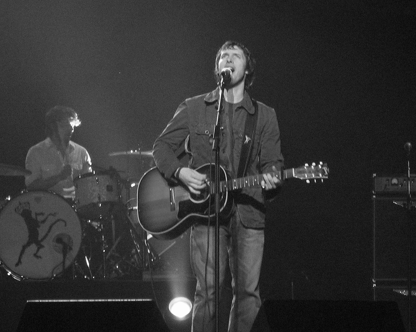 James Blunt performing at The Paramount in Seattle.